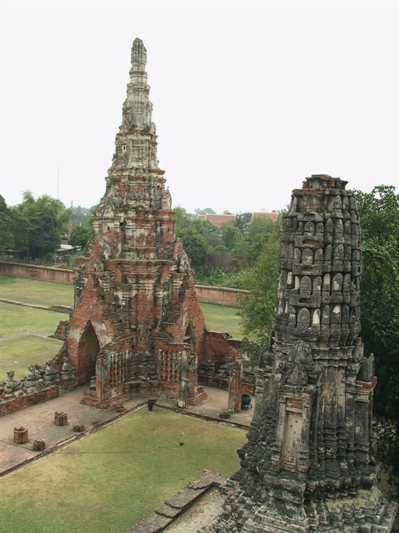 Wat Cha Wattanaram, Ayutthaya Historical Park, Thailand